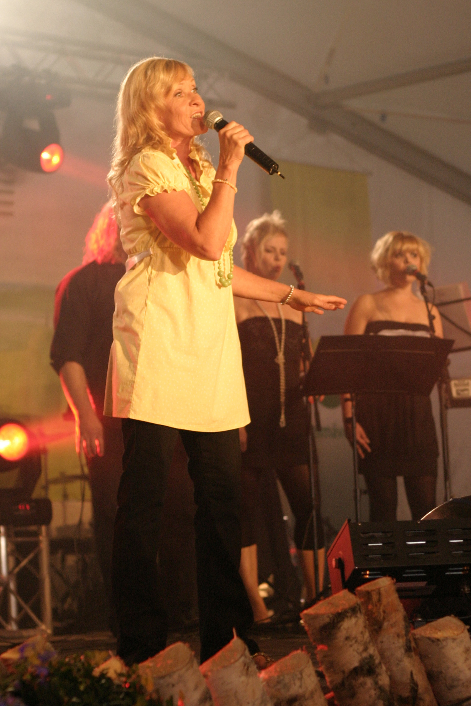 Taiska in Vihreät Niityt music festival in the summer 2007.